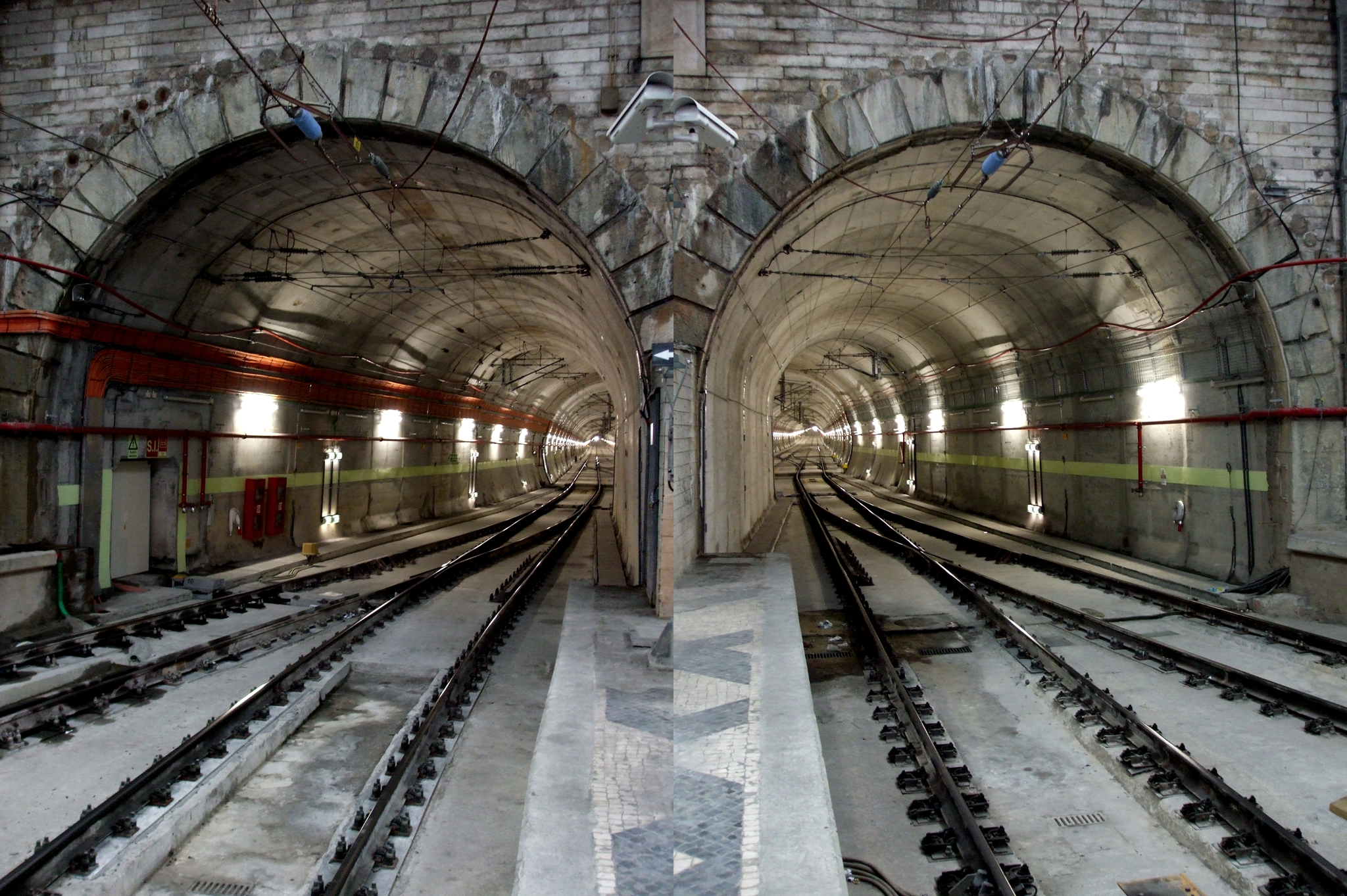 Tunnel at Rossio (collage brings together two perspectives of the same tunnel)